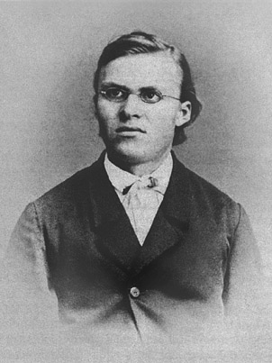 Friedrich Nietzsche, 19 years old. Photography by Gustav Schultze, Naumburg, probably between September 8 and 22, 1864.